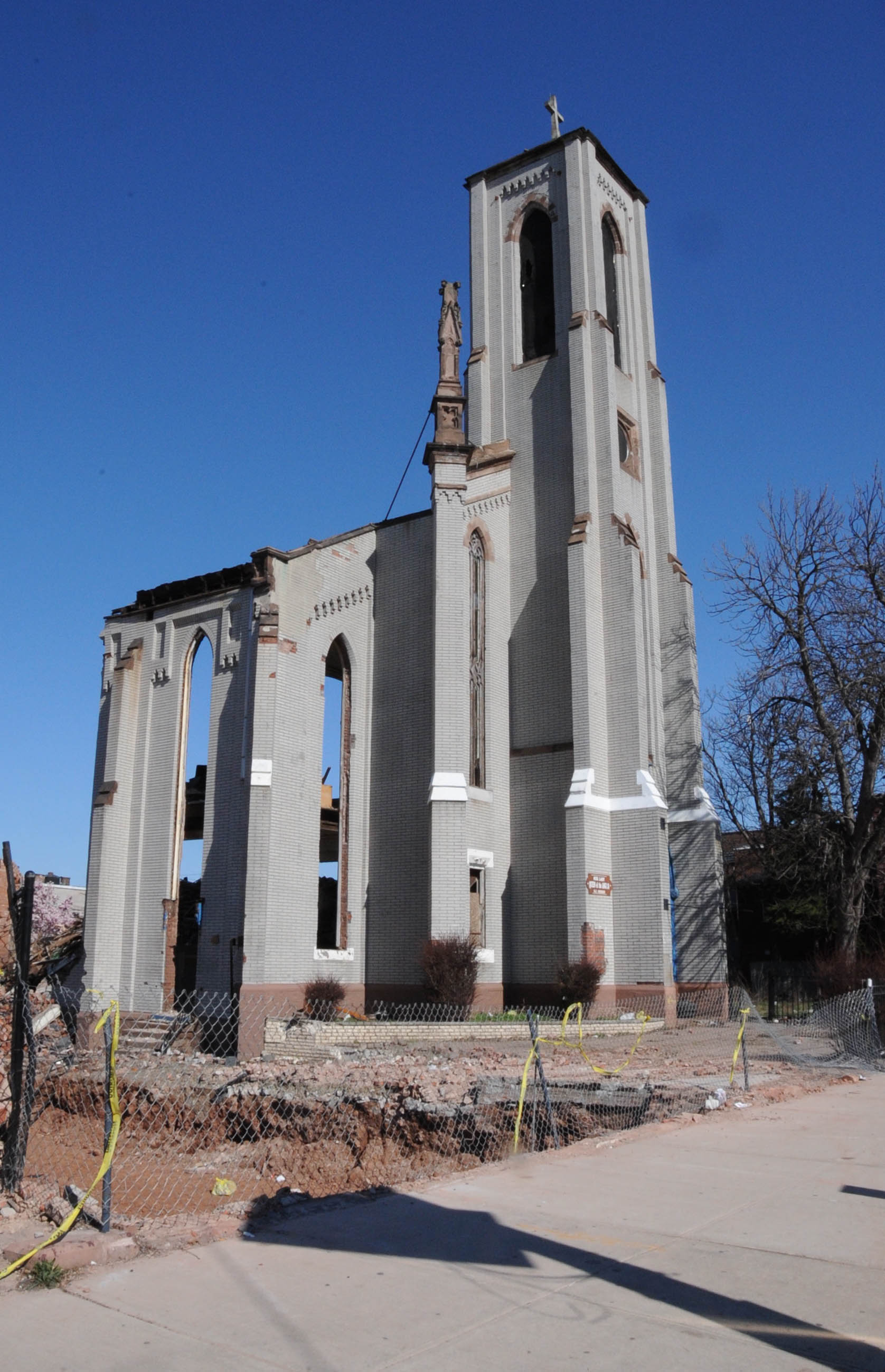 BUILT IN 1861. CHURCH STARTED AS ST. PETER’S GERMAN R.C. CHURCH BUT AS THE GERMAN ELEMENT MOVED IT BECAME THE FIRST AFRICAN AMERICAN R.C. CHURCH IN NEWARK. MARTIN LUTHER KINGS VISITED HERE. BECAUSE OF DECLINING MEMBERSHIP IT WAS DECIDED TO CLOSE THE CHURCH AND IT WAS SCHEDULED FOR DEMOLITION WHICH IS NOW UNDERWAY